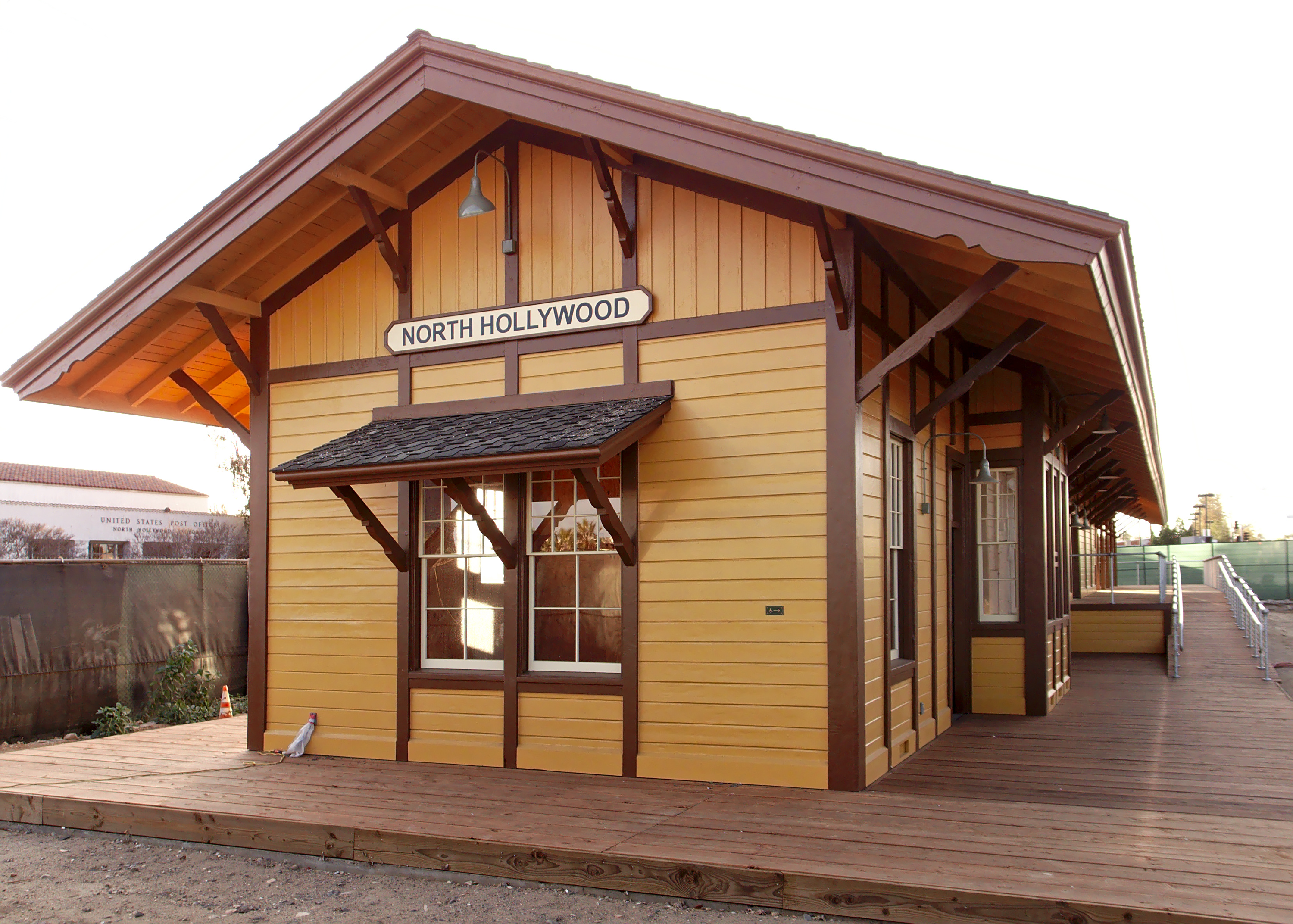 View from the east of the Toluca Southern Pacific Depot and Pacific Electric Lankershim Station — in North Hollywood, San Fernando Valley. • Located near the North Hollywood Los Angeles Metro station and eastern terminus of the Orange Line. Still completely surrounded by fencing in this photo.